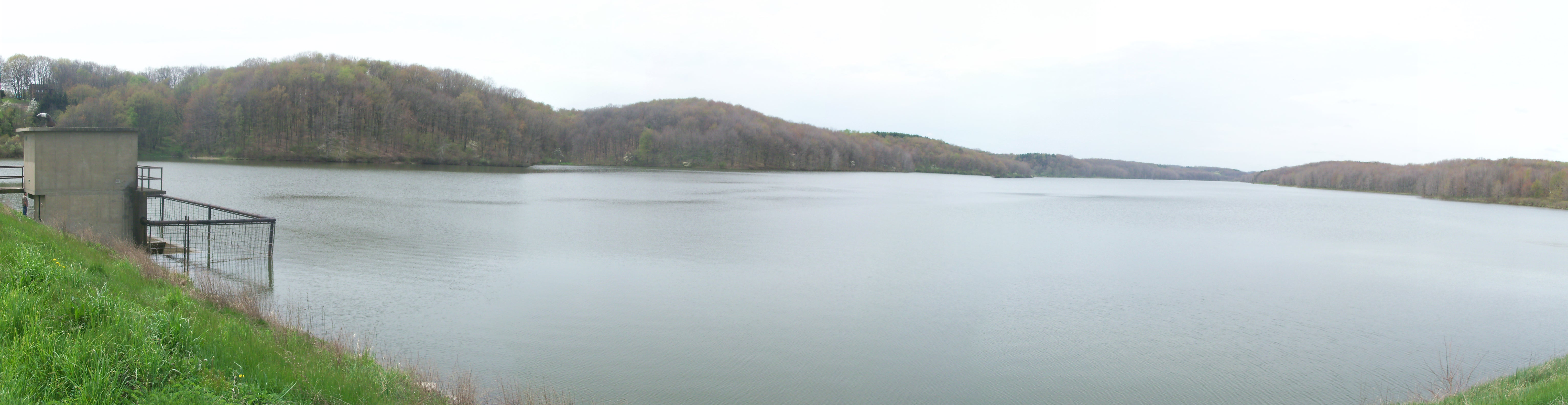 Highlandtown Lake in panorama photo from dam located near Highlandtown, Ohio in Washington Township, Columbiana County, Ohio